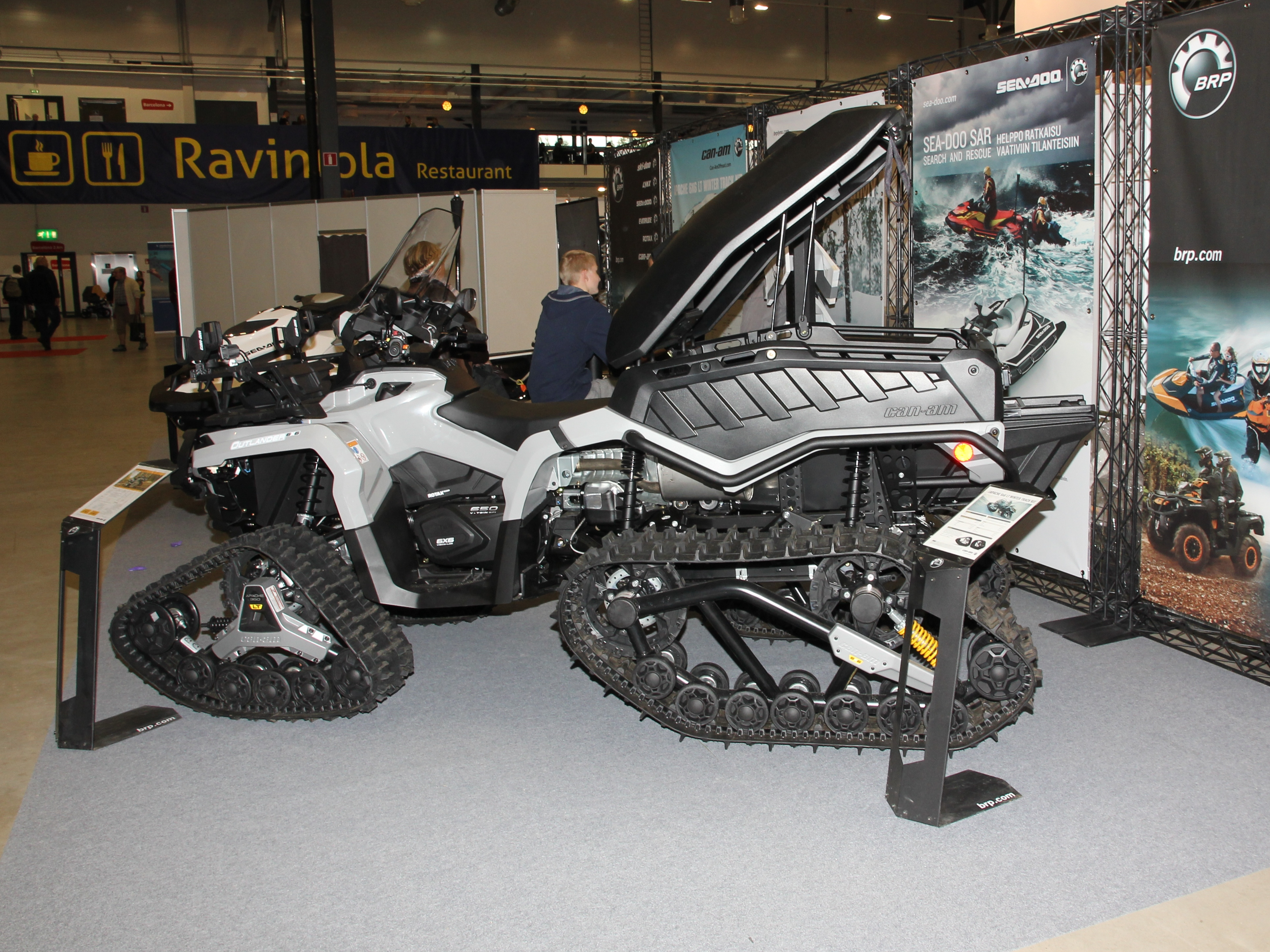 Can-Am Outlander 6x6 T3 all-terrain vehicle with Apache 6x6 LT winter tracks at Comprehensive security exhibition 2015 in Tampere.